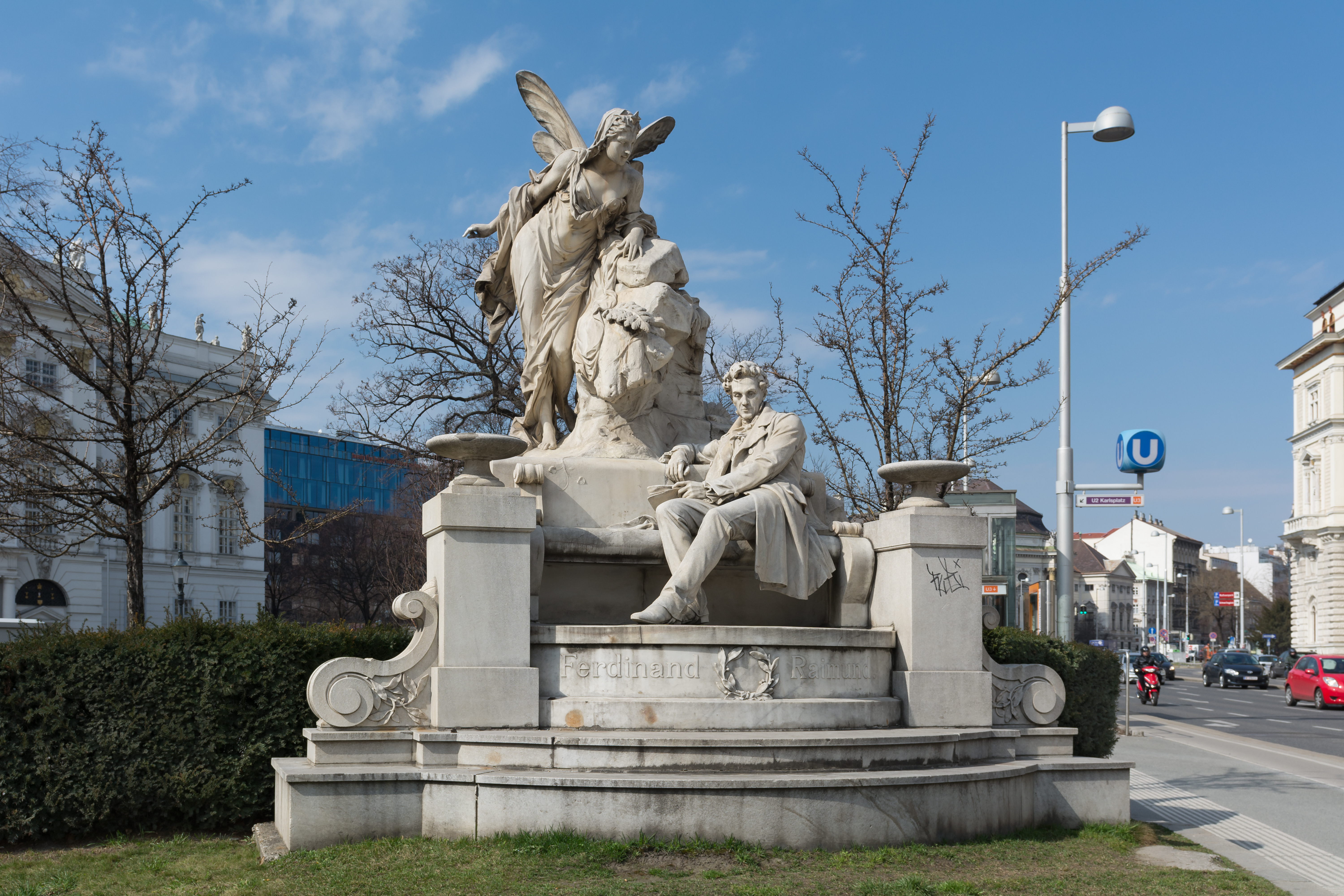 The monument of the poet Ferdinand Raimund was made in 1898 by Franz Vogl. Behind Raimund is an allegory ofpoetry.